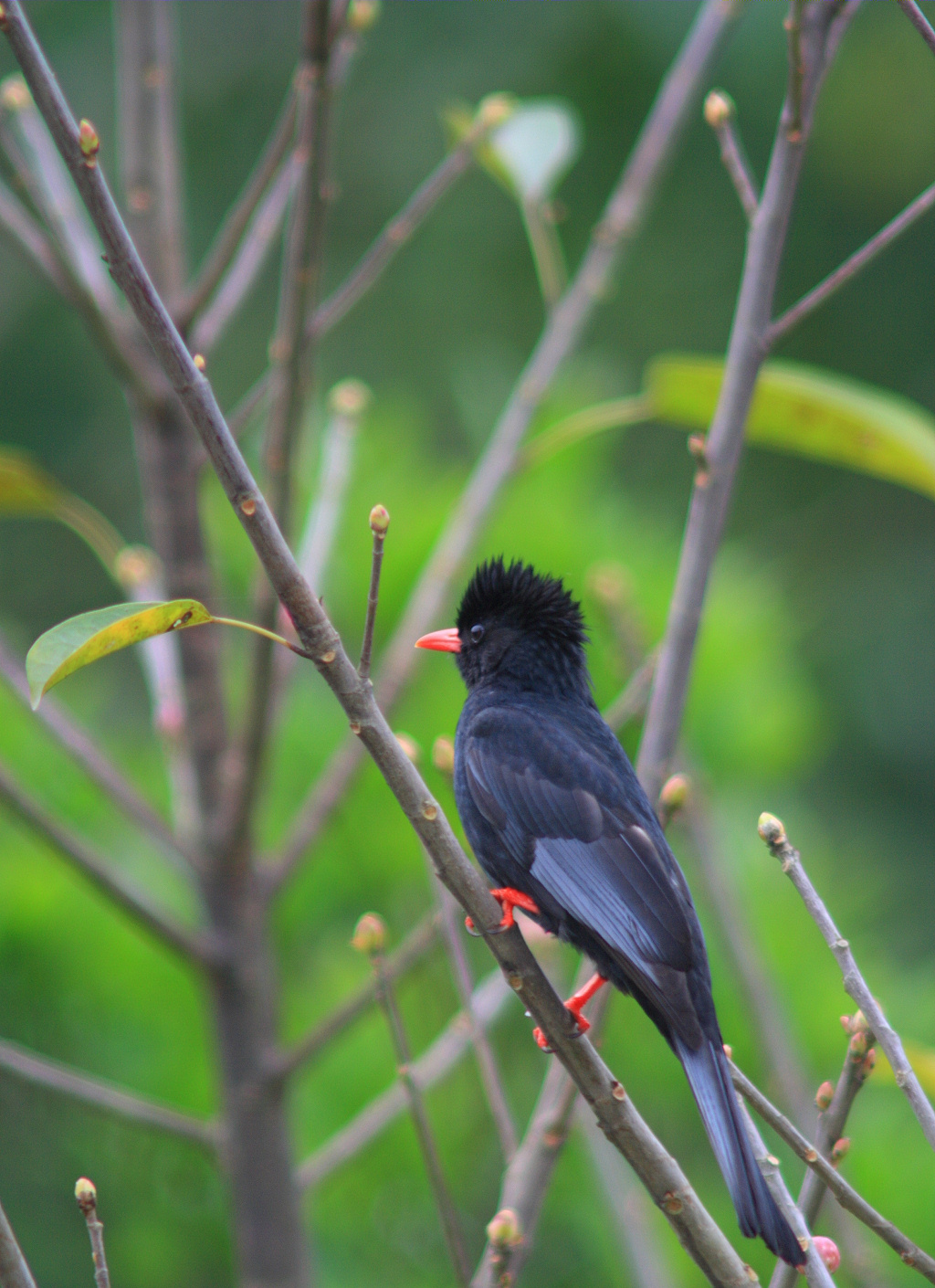 Black Bulbul (Hypsipetes leucocephalus) in Taiwan.